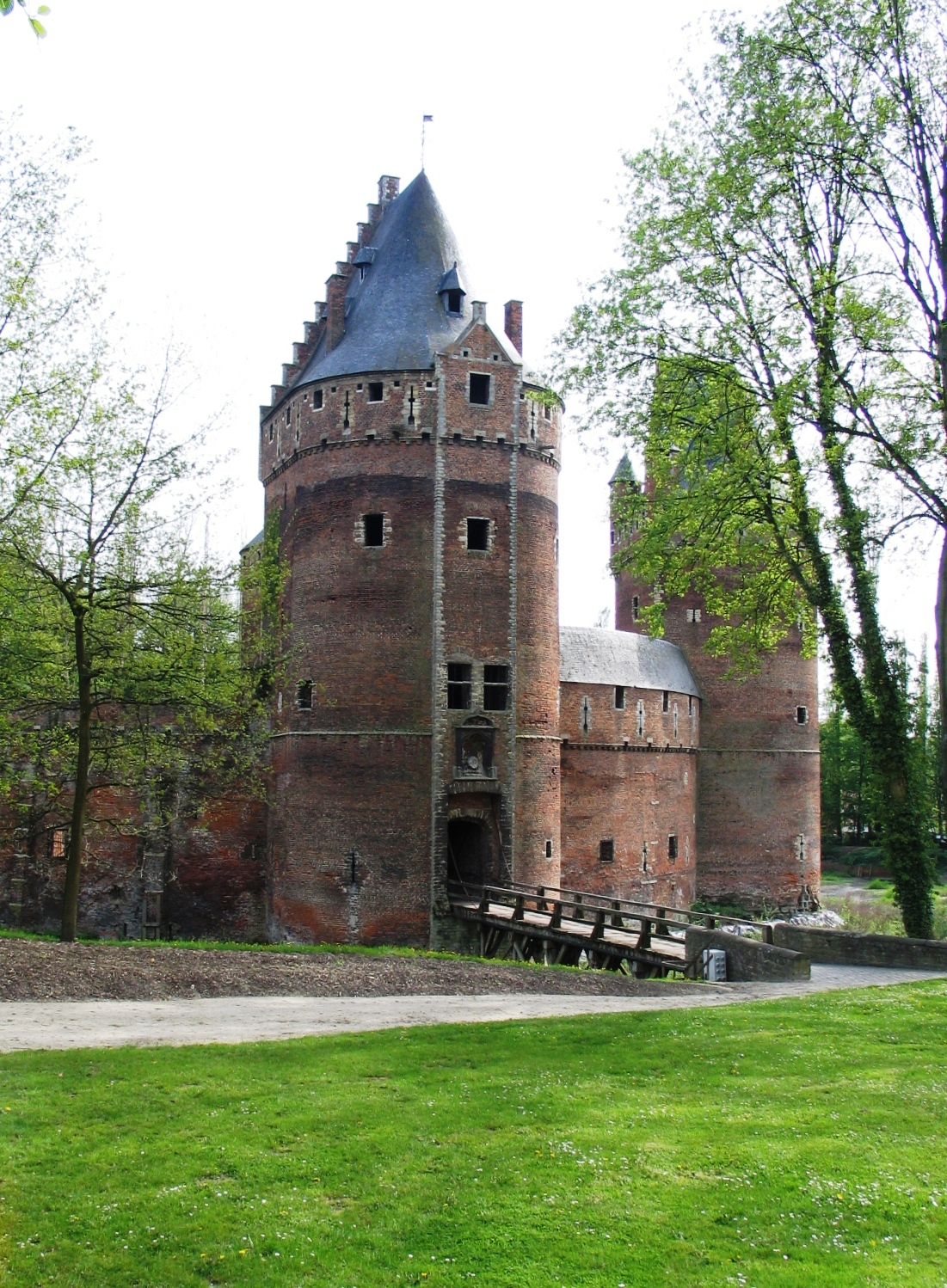 Beersel castle.